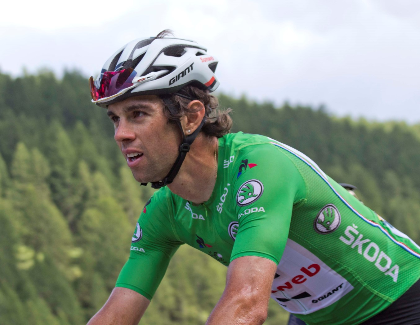 20-7_12 matthews